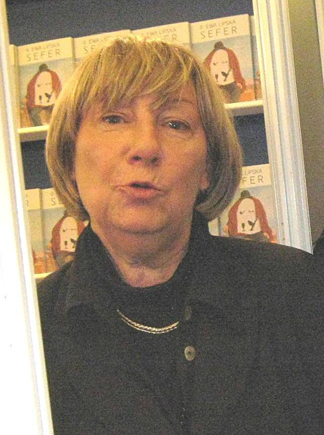 Polish poets Ewa Lipska.